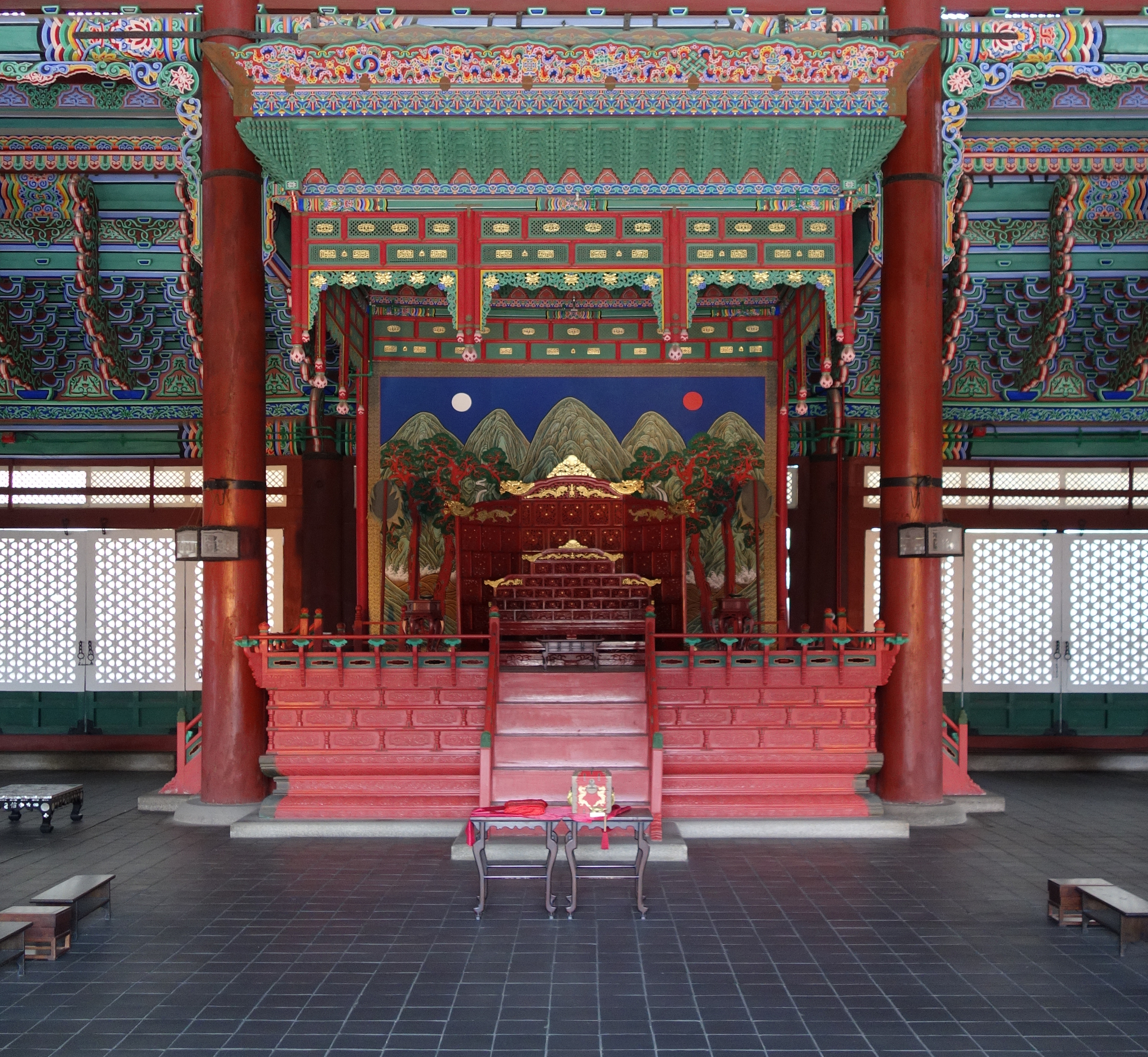 The throne in the throne hall, Geunjeongjeon, in Gyeongbokgung Palace, Seoul, South Korea